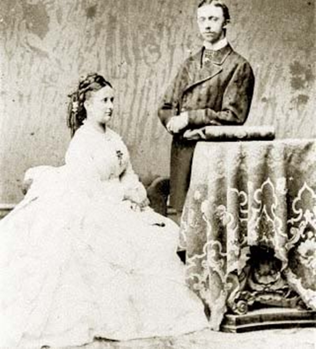 Duke Roberto I of Parma and his wife the princess Maria Pia of Two Sicilie.